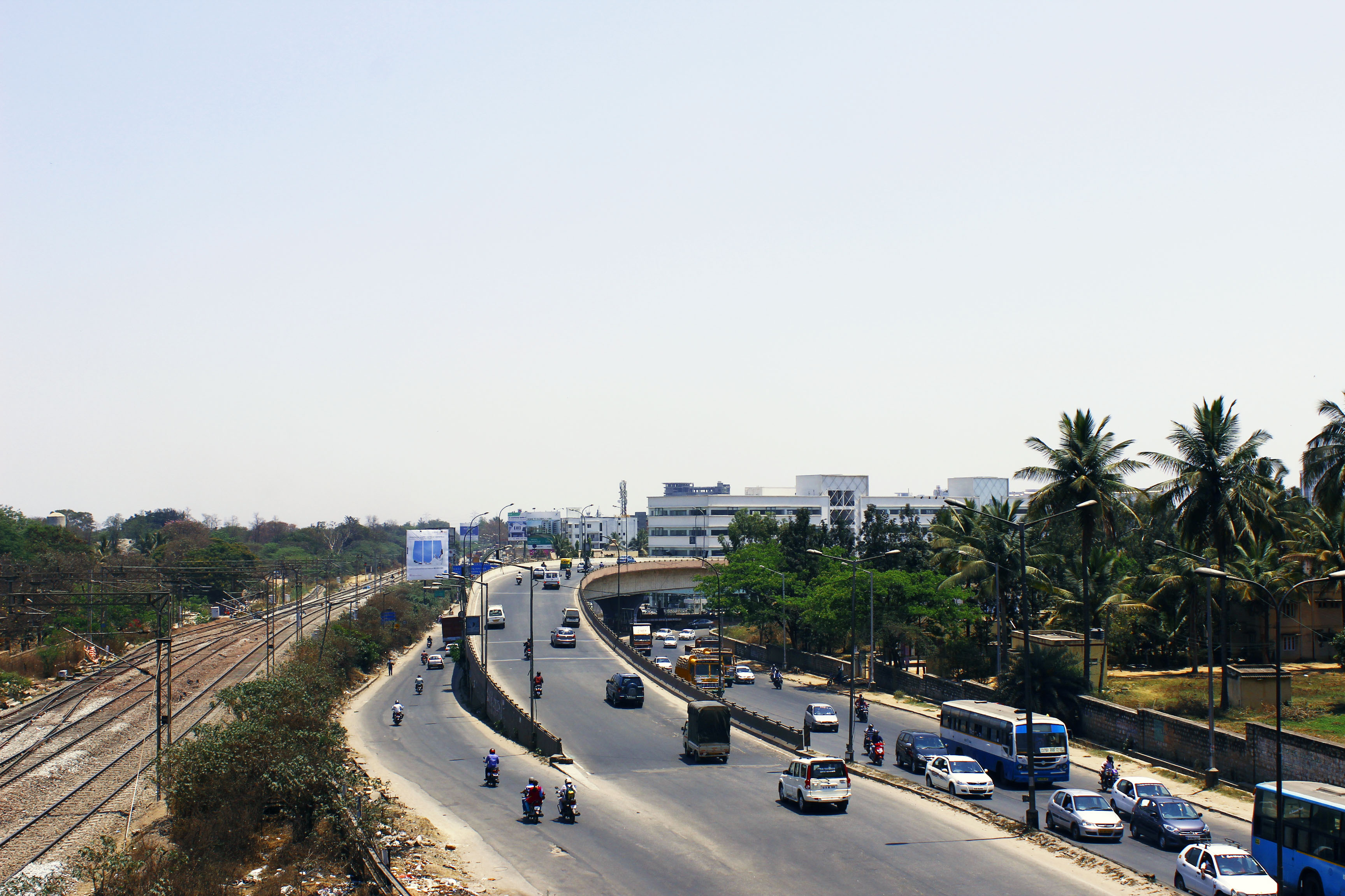 K.r.puram outer ring road fly over